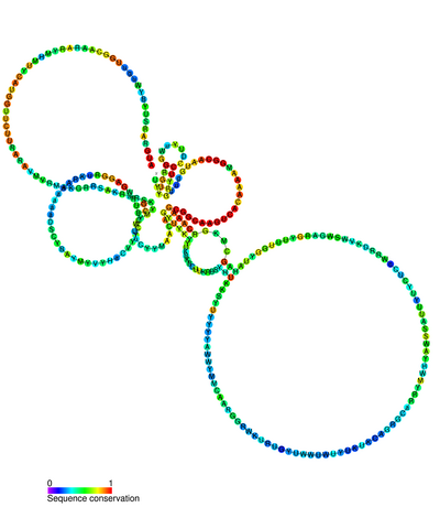 ENOD40 RNA secondary structure and sequence conservation